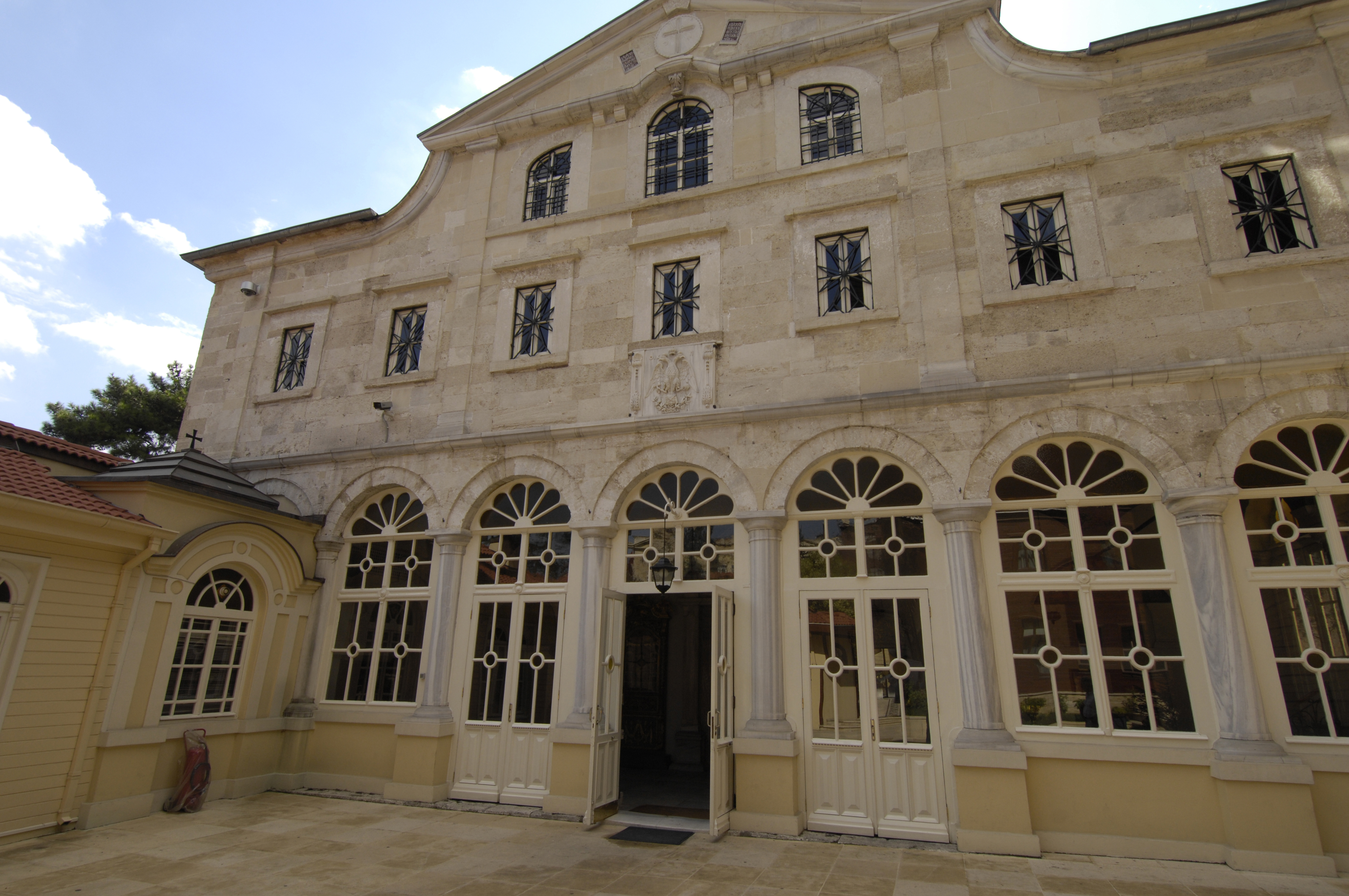 The complex is the Ecumenical Patriarchate of Constantinople, several buildings face a square.